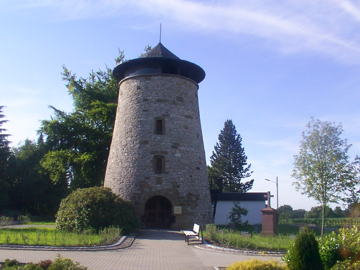 Bielefeld: former royal mill in Jöllenbeck